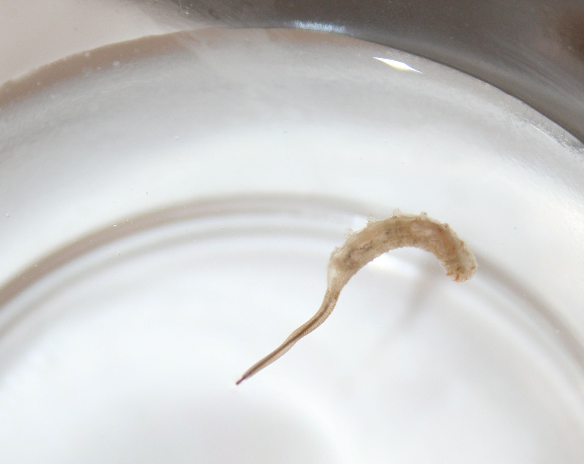 rat tail maggot